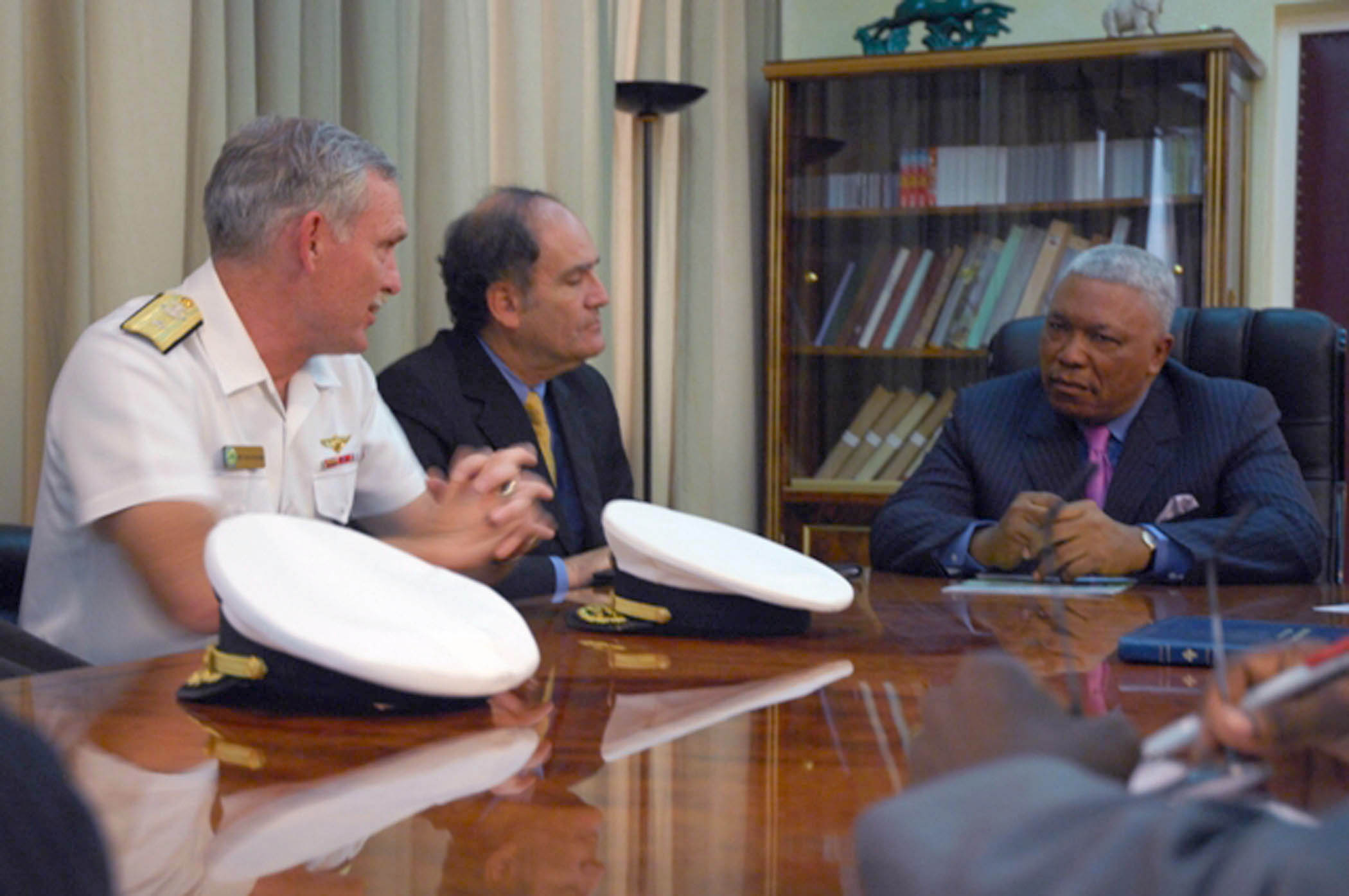 BRAZZAVILLE, Congo (Oct. 3, 2007) - Rear Adm. Michael R. Groothousen, commander of Navy Region Europe, and Robert Weisberg, U.S. Ambassador to the Republic of Congo, meet with Republic of Congo Prime Minister Isidore Mvouba to discuss work U.S. Navy Seabees recently completed for two schools in the region. Teams of U.S. Navy Seabees regularly work to rebuild structures like schools and boat ramps in Africa as part of the Africa Partnership Station initiative. U.S. Navy photo by Mass Communication Specialist 1st Class William John Kipp Jr. (RELEASED)